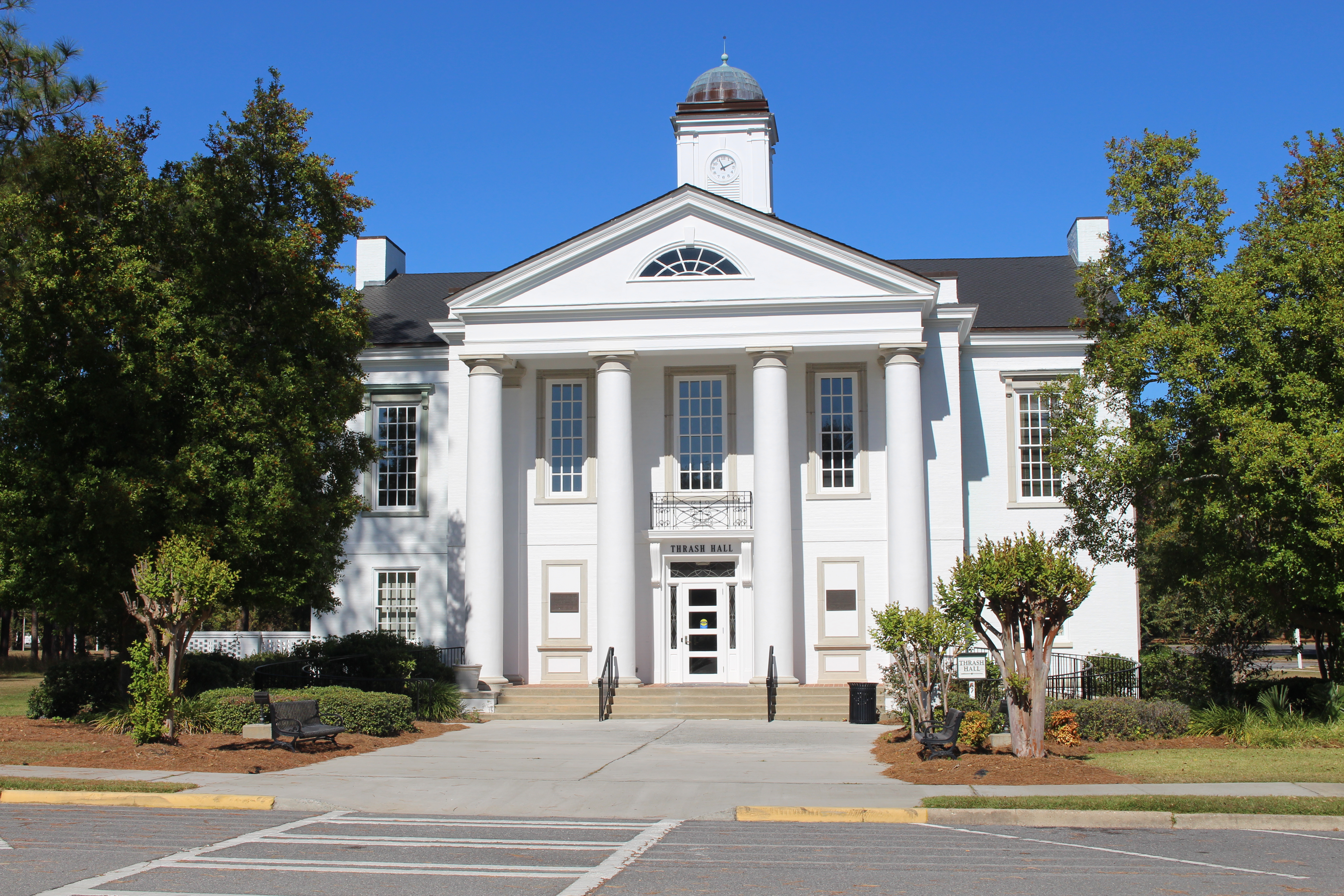 South Georgia State College, Douglas, Coffee County, Georgia